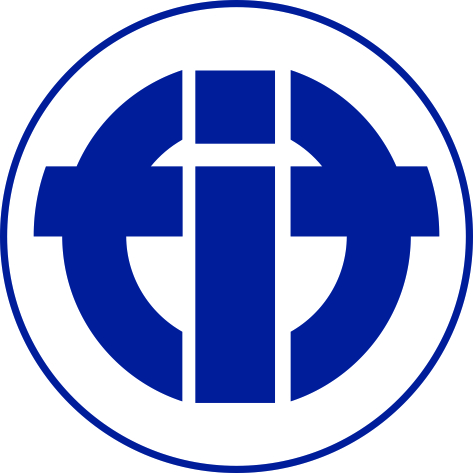 Logo of the International Federation of Translators (FIT)